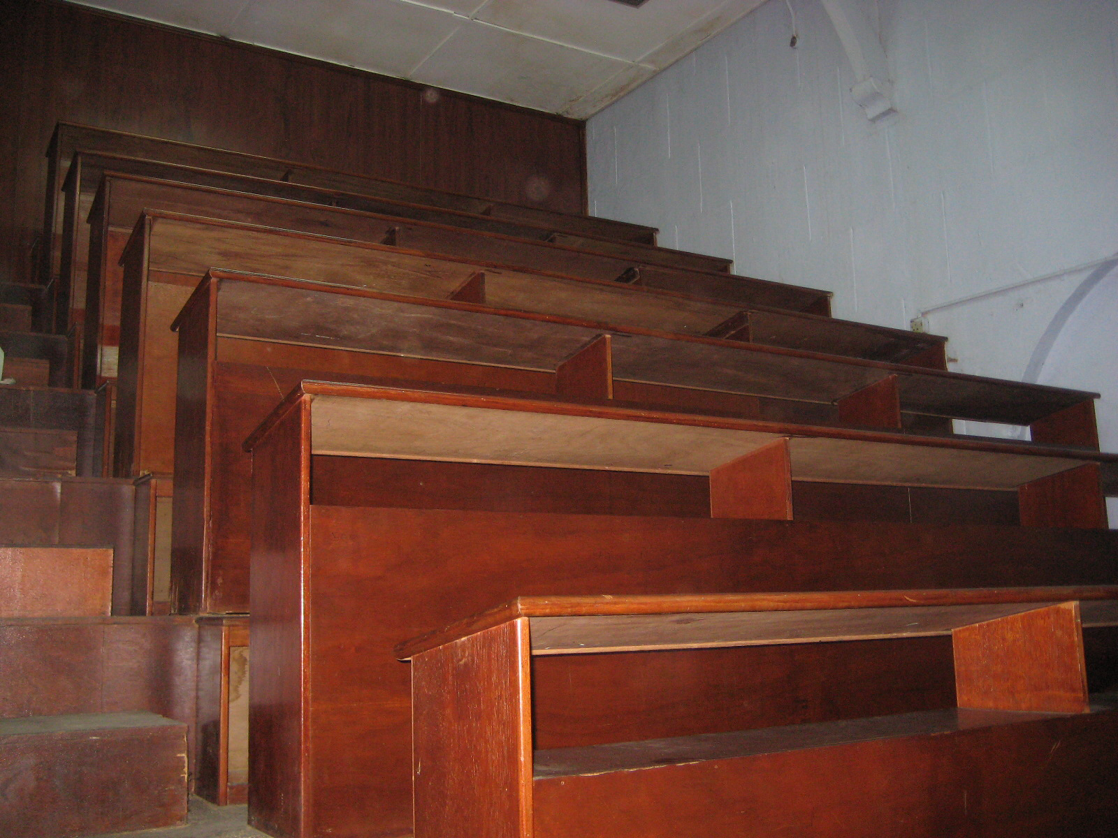 Kaki lima yang luas dan bersiling tinggi, Maxwell School